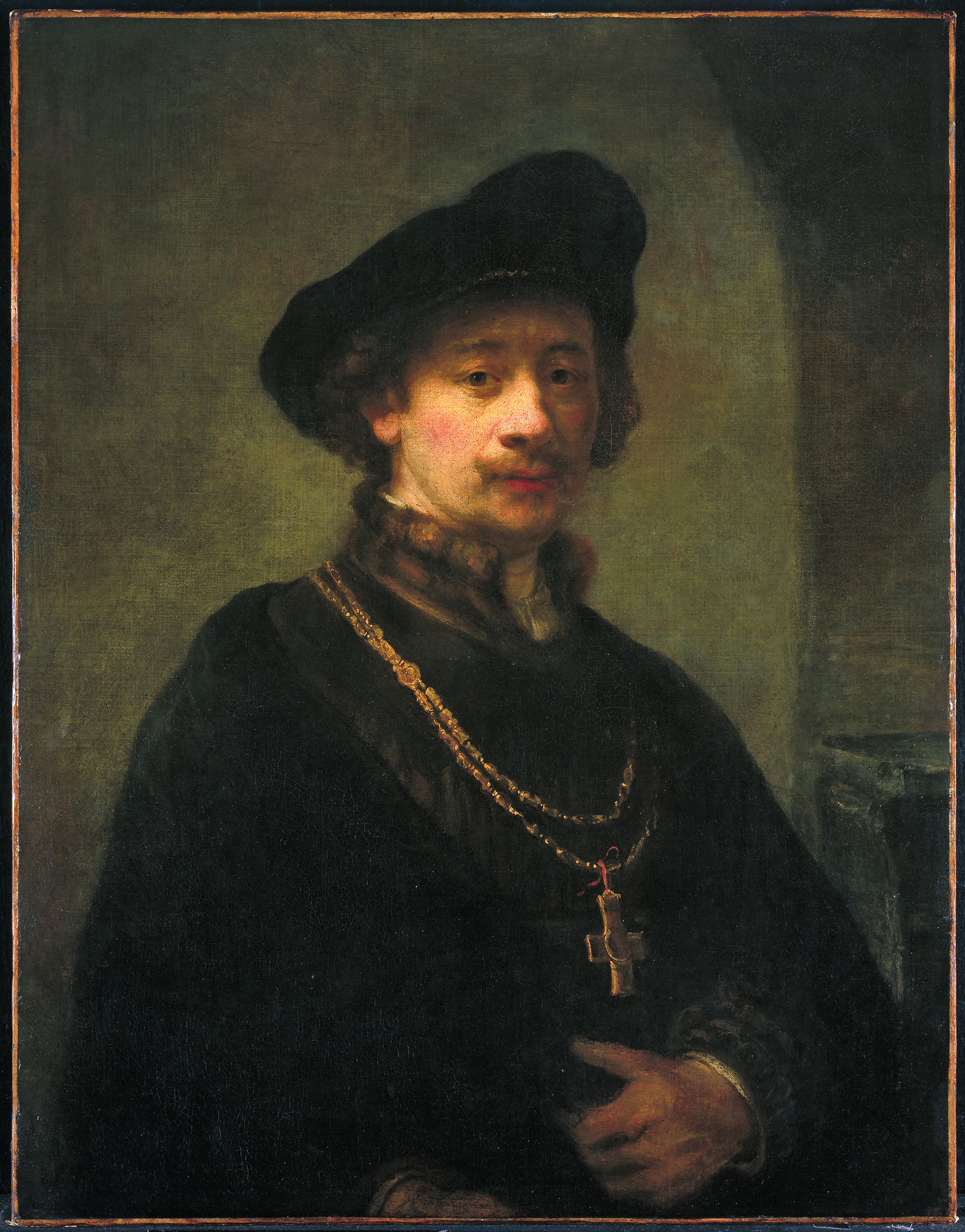 This image is available from the Netherlands Institute for Art Historyunder digital ID 30247. This tag does not indicate the copyright status of the attached work. A normal copyright tag is still required. See Commons:Licensing.